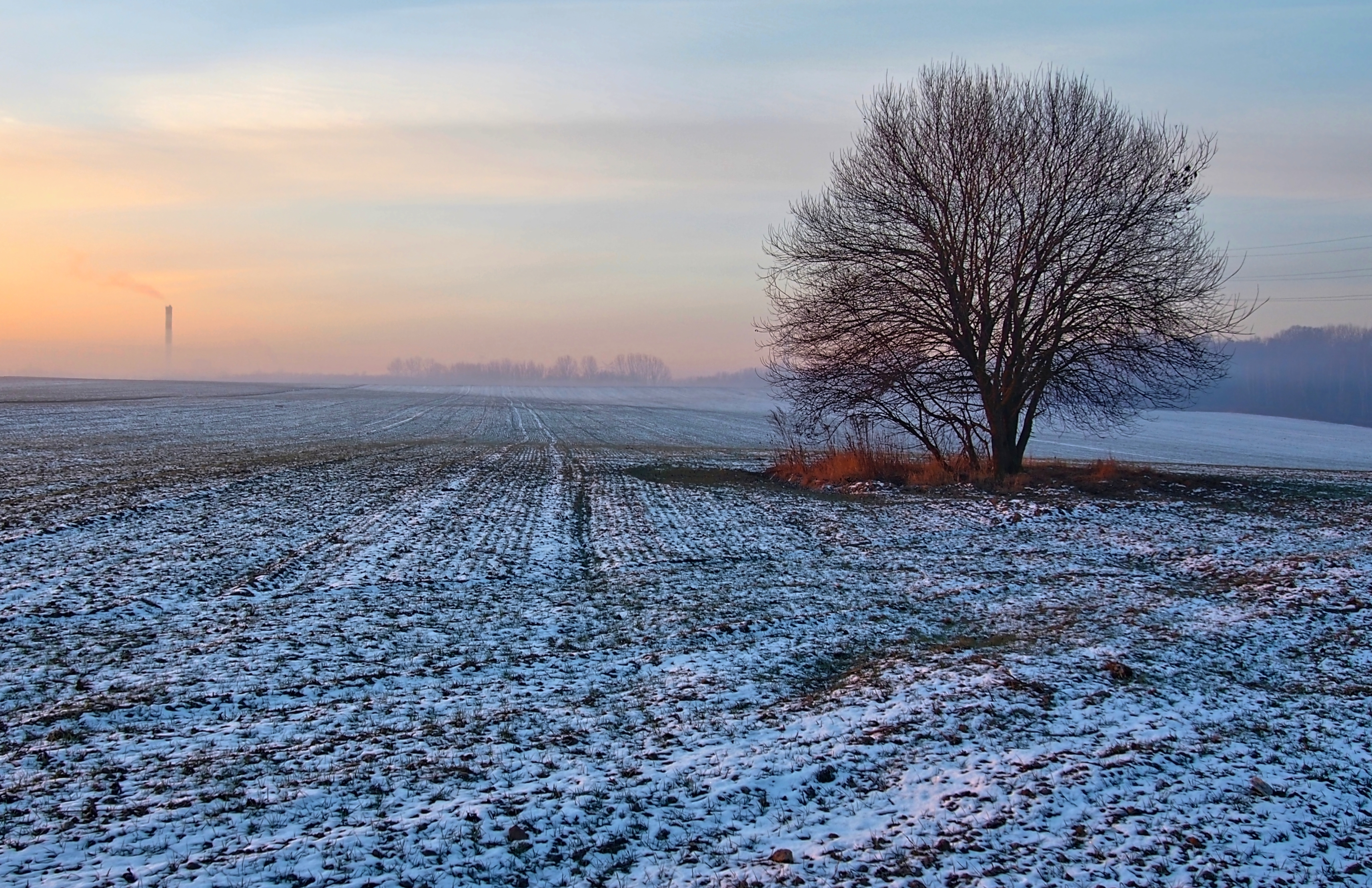 Czeladź.Winter landscape.